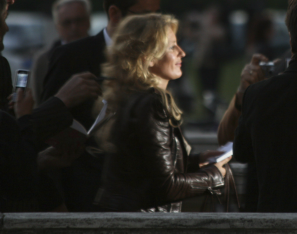 Actress Maria Furtwängler at the Romy TV awards (Hofburg Imperial Palace in Vienna)